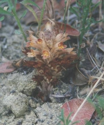 Parish's Broomrape (inflorescence) Orobanche parishii ssp. brachyloba Orobanchaceae. A true rarity to see, this broomrape is a root parasite on several coastal scrub species. The only apparent structure is the seasonal inflorescence, shown here. Cabrillo National Monument -- Hillock next to entrance booth, west side. Point Loma, California, USA -- photo taken 24 June 1995 by D.-R. D. Luria